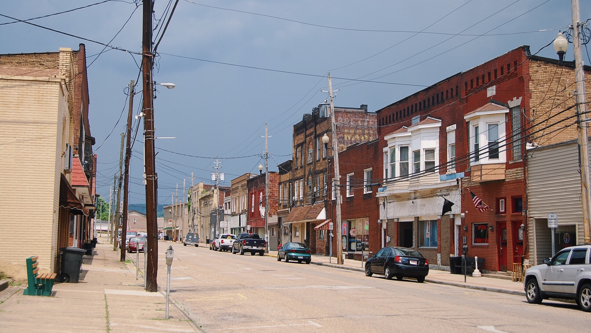 Looking down Commercial Avenue in Mingo Junction, Ohio